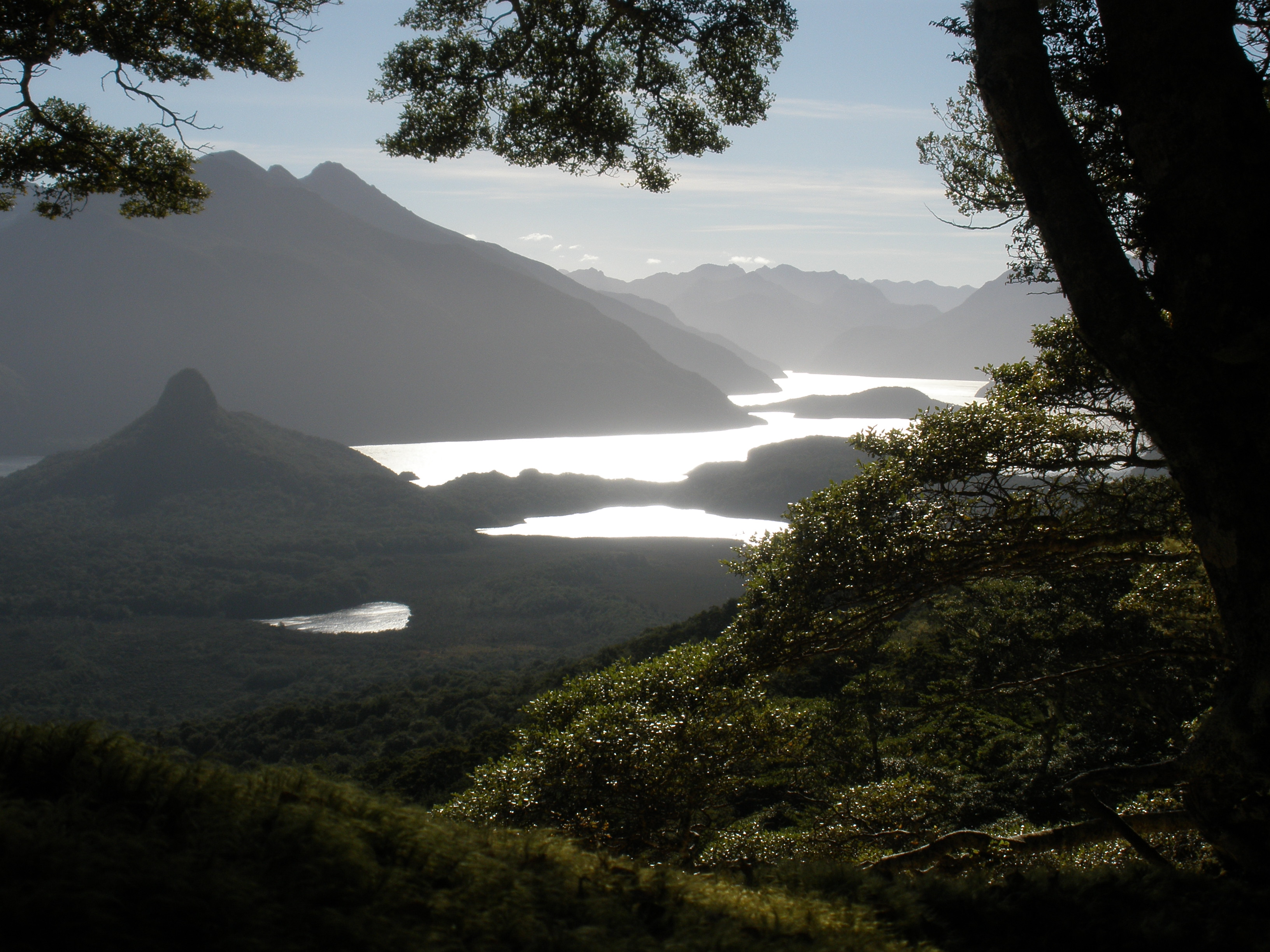 A view (the only view) of Lake Manapouri and The Monument from the Circular Manapouri Track